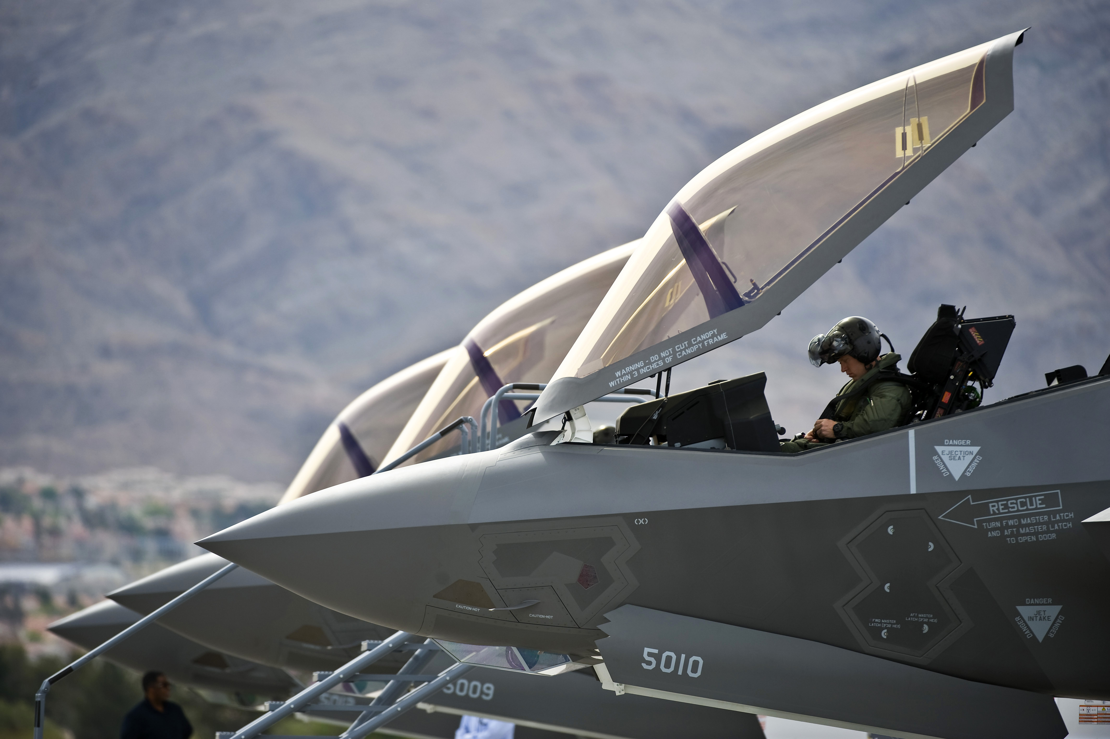 U.S. Air Force Capt. Brad Matherne, a pilot with the 422nd Test and Evaluation Squadron, conducts preflight checks inside an F-35A Lightning II aircraft before its first operational training mission April 4, 2013, at Nellis Air Force Base, Nev. The squadron was designated as the authority responsible for integrating the F-35A into the Air Force inventory.